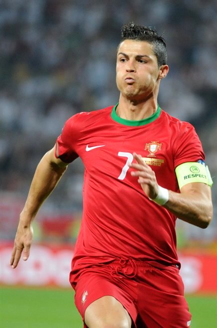 Match between Germany and Portugal during UEFA Euro 2012 that took place in Lviv. Final score was 1:0 (Gómez).